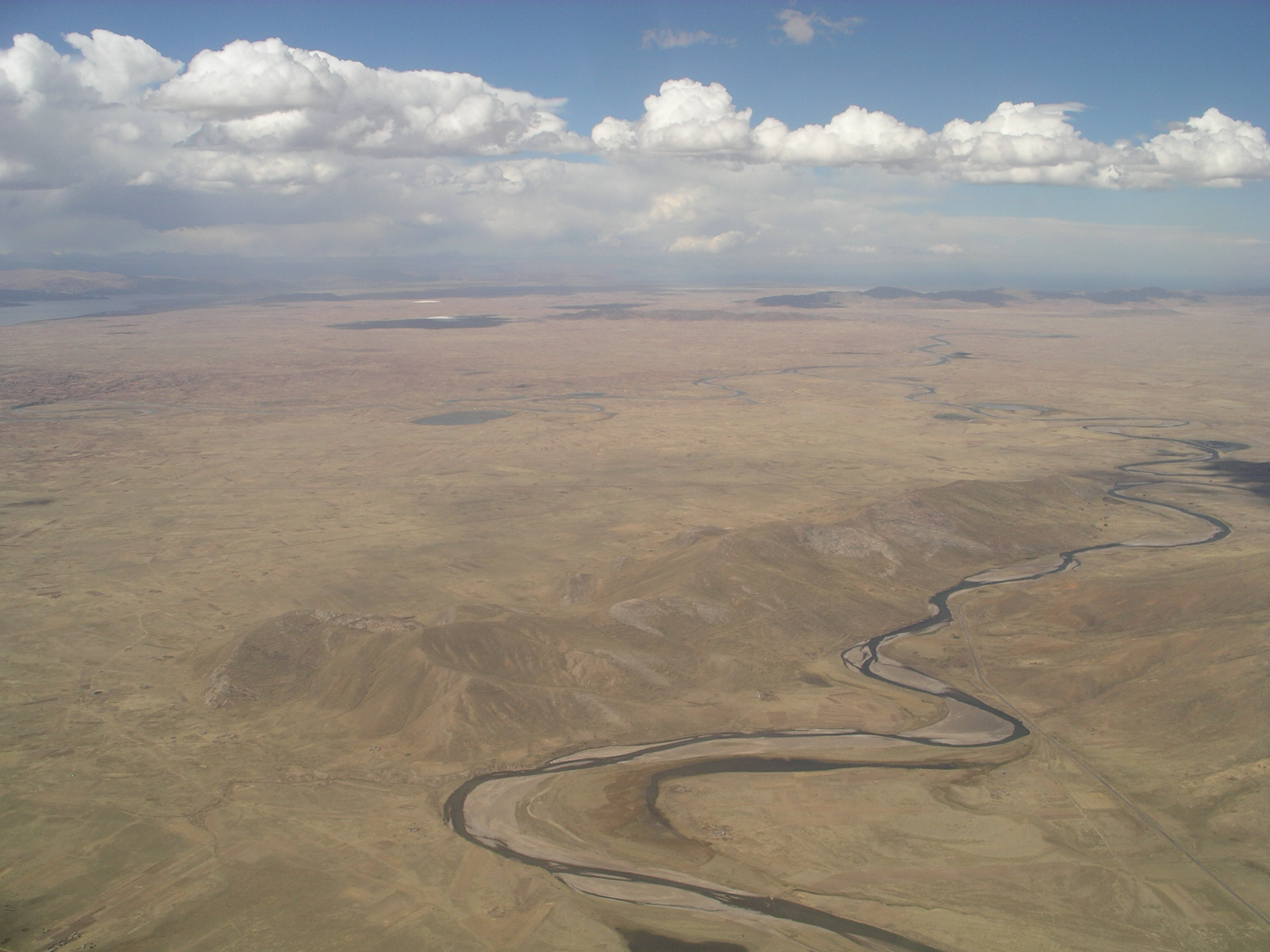 Aerial view of the arid Altiplano between Sicuani (Cusco) and Ayaviri (Puno), Peru. The altitude of the Altiplano is about 3900 m at this place.